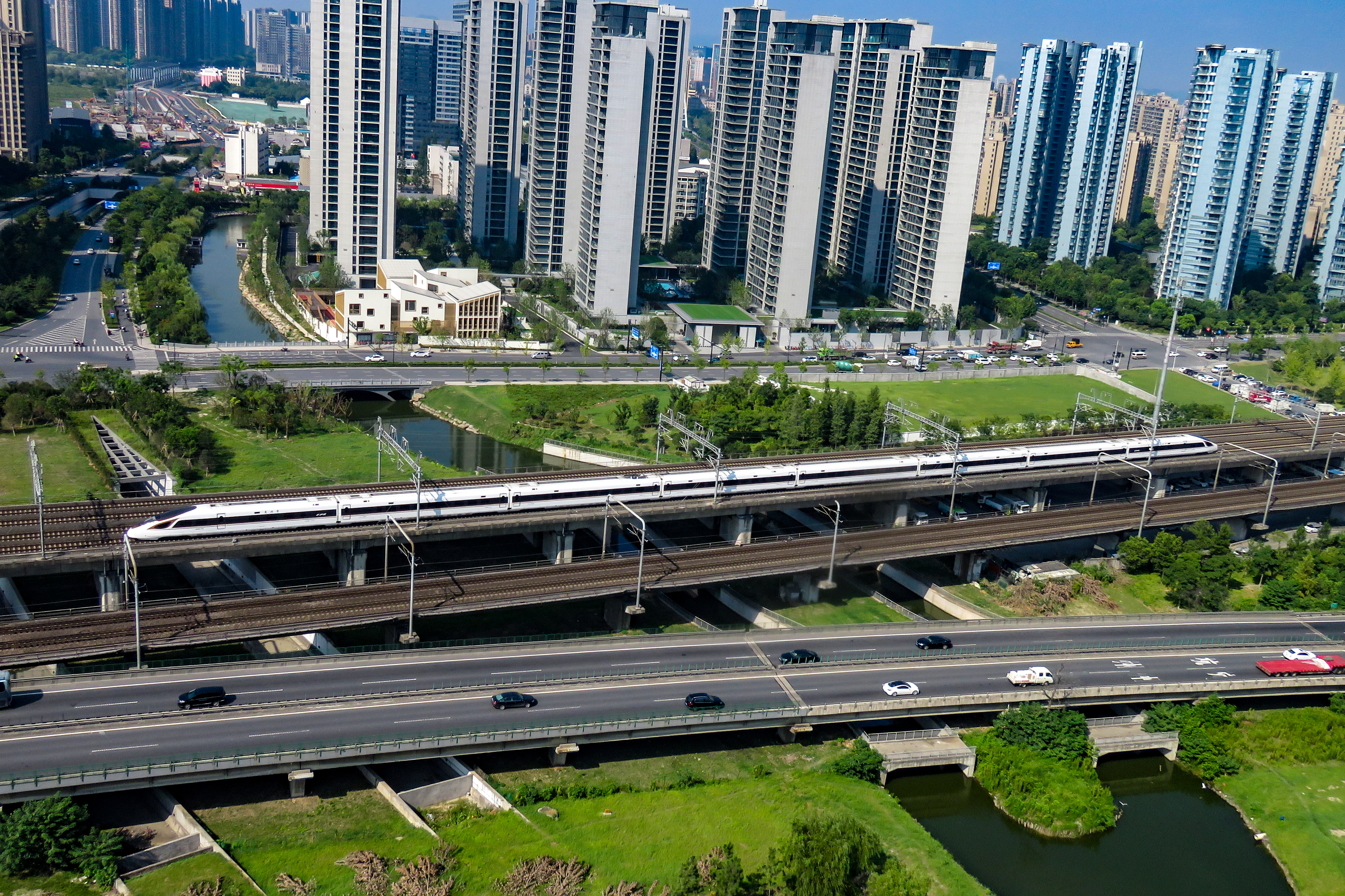 G1631 from Shanghai Hongqiao to Fuzhou.